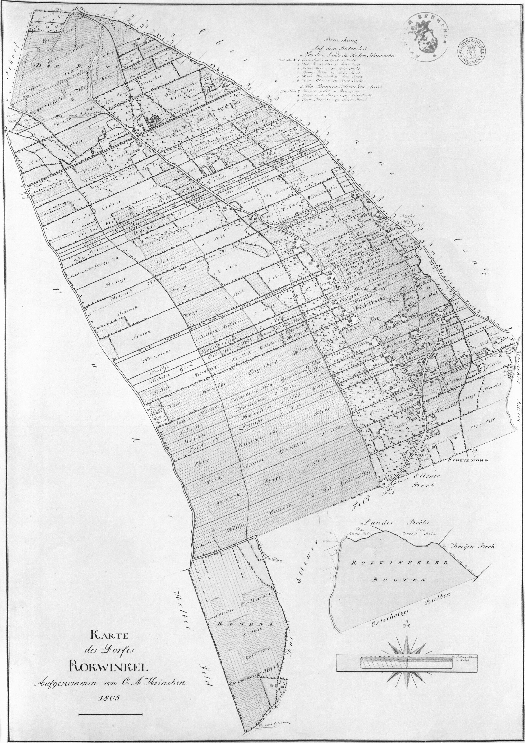 Original title: Map of Rokwinkel village, survey by C. A. Heineken 1805